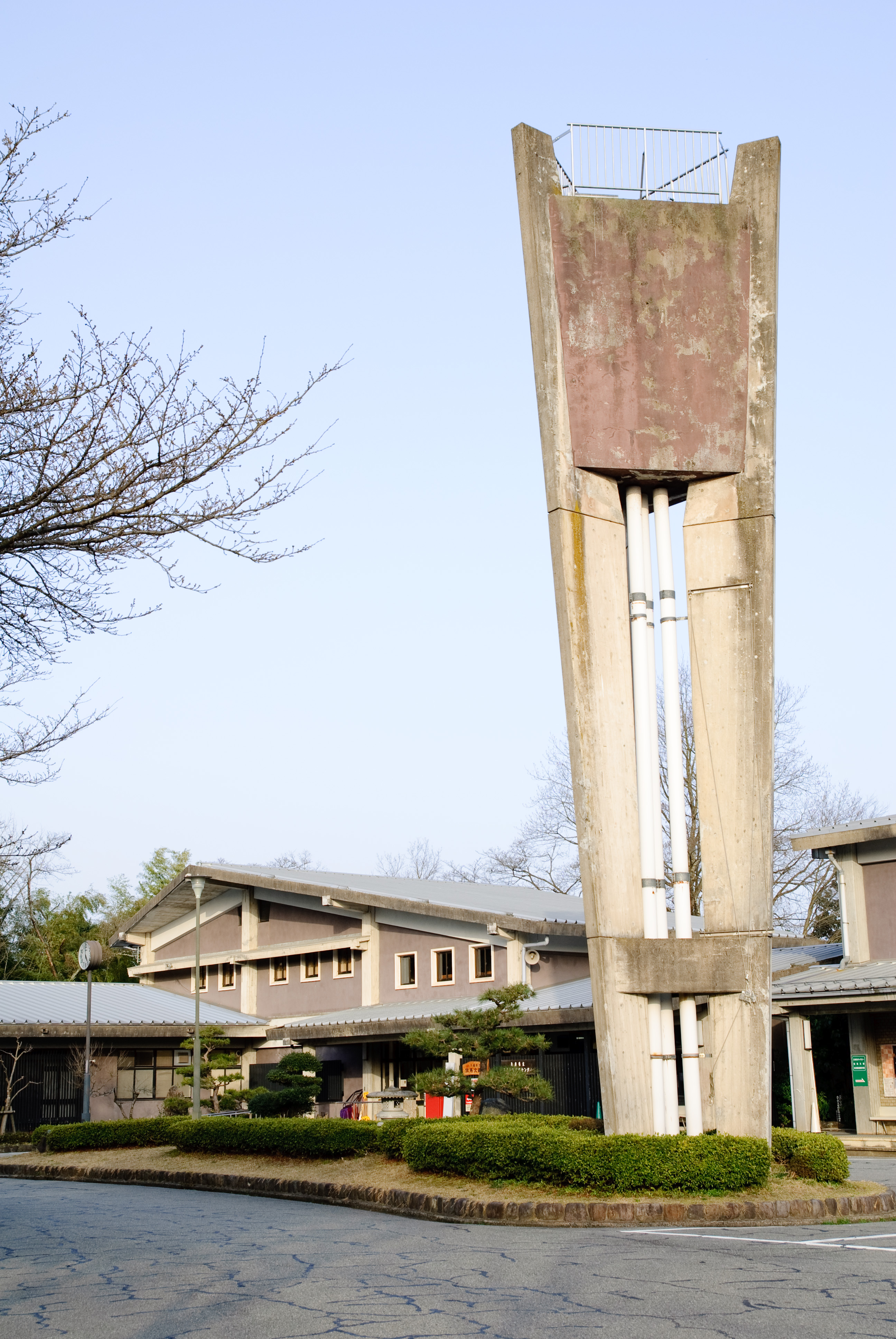 Hyogo Prefecture Tajima Bunkyofu.